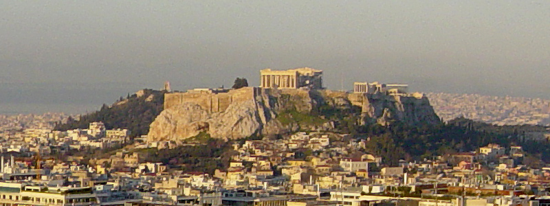 Acropolis of Athens at dawn, view from St. George Lycabettus Hotel